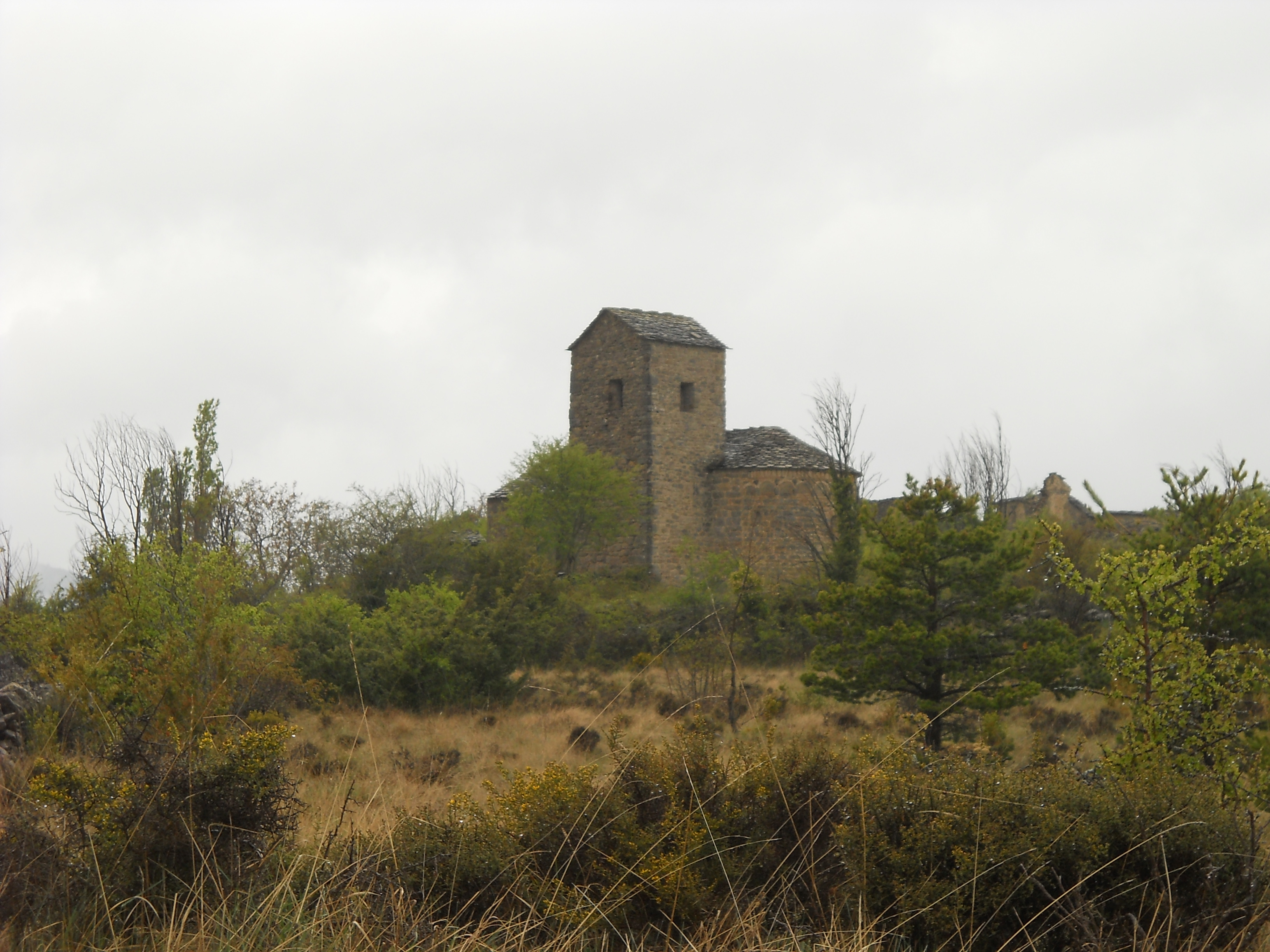 Nasarre, Bierge, Huesca, Spain